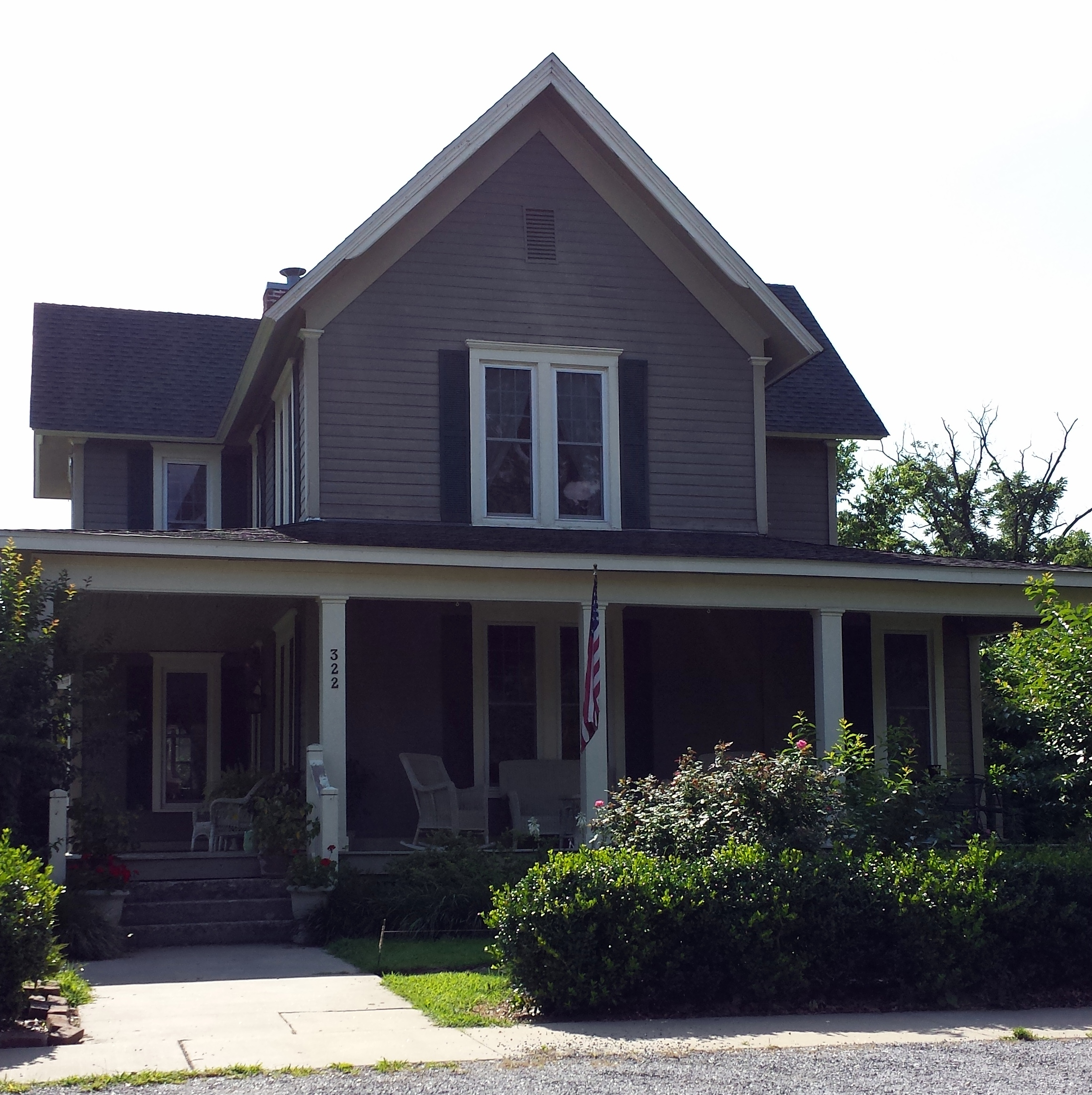 Contributing property to the Carl's Addition Historic District in Siloam Springs, AR